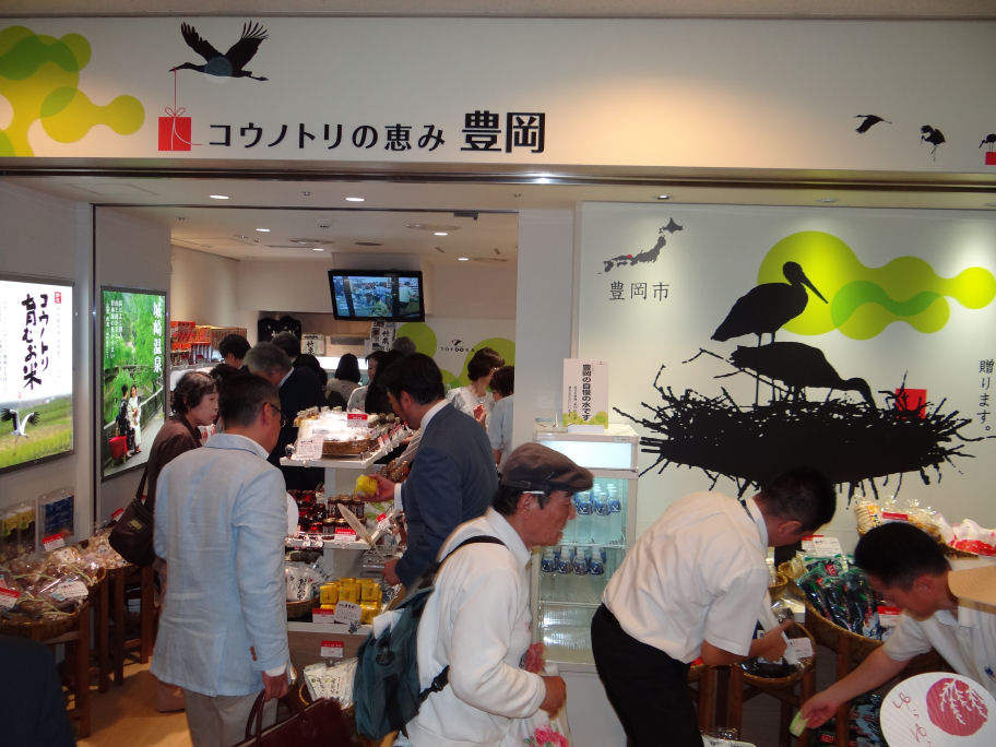 アンテナショップ「コウノトリの恵み 豊岡」